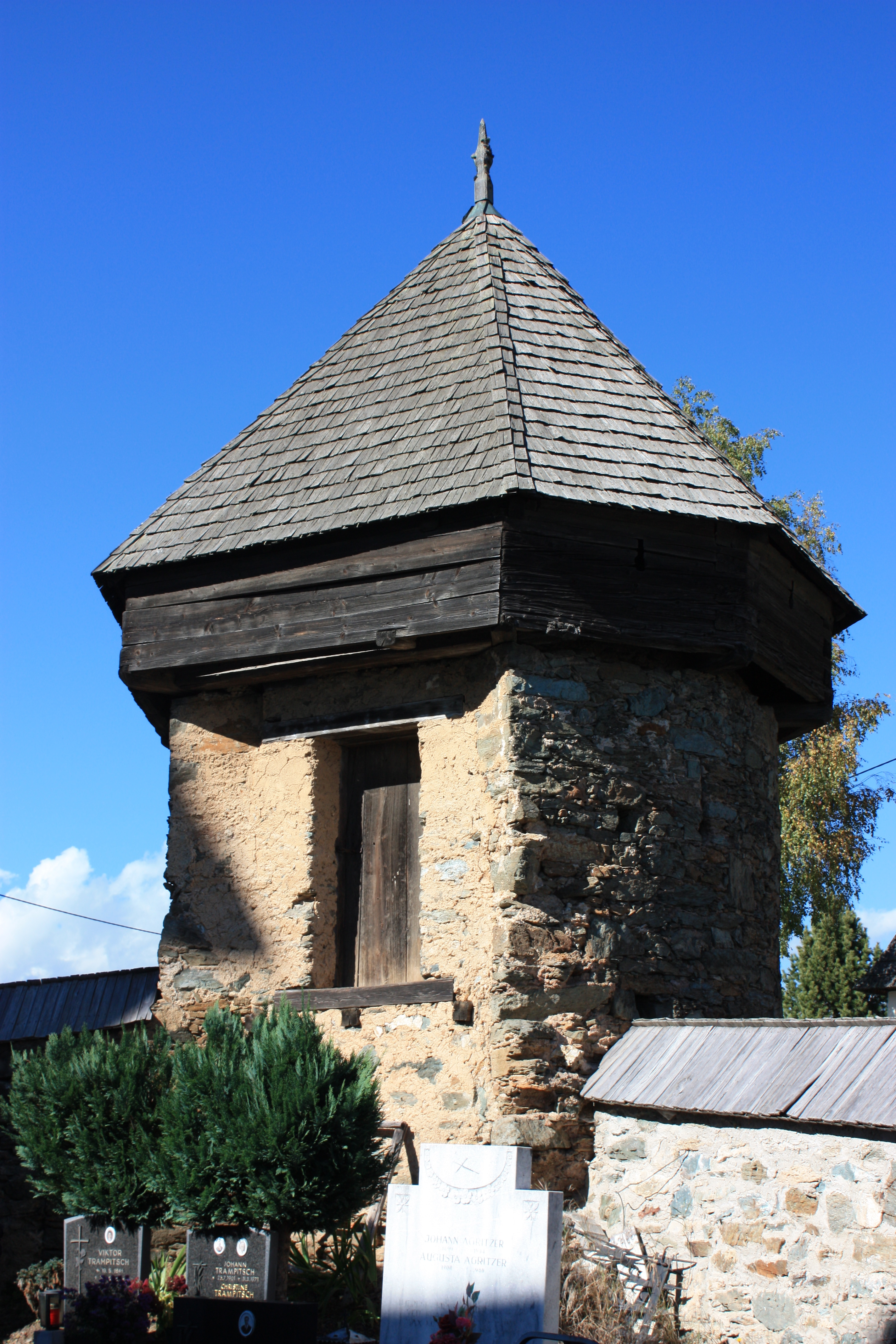 Parish church Saint George - Tower Locality:Zammelsberg Community:Weitensfeld